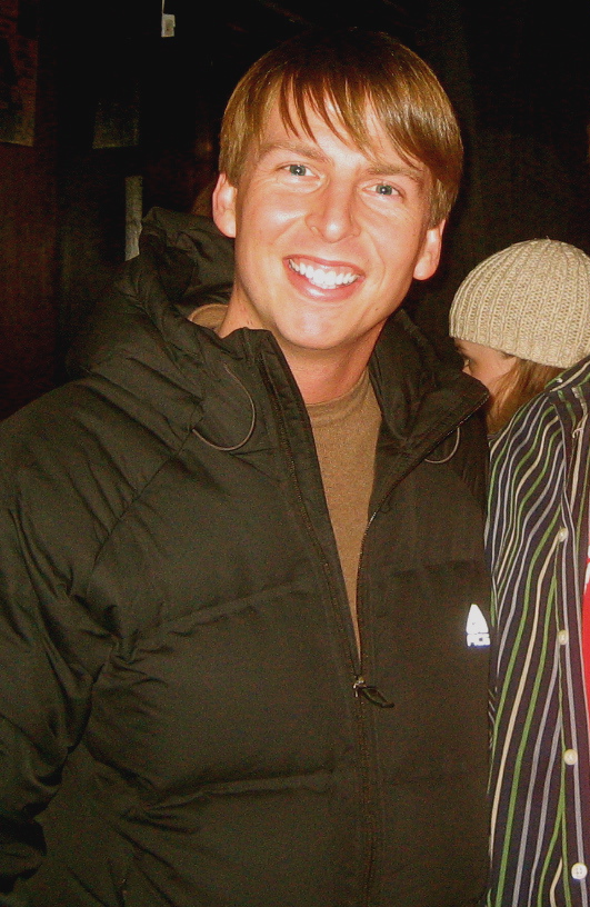 Jack McBrayer in New York in March 2007